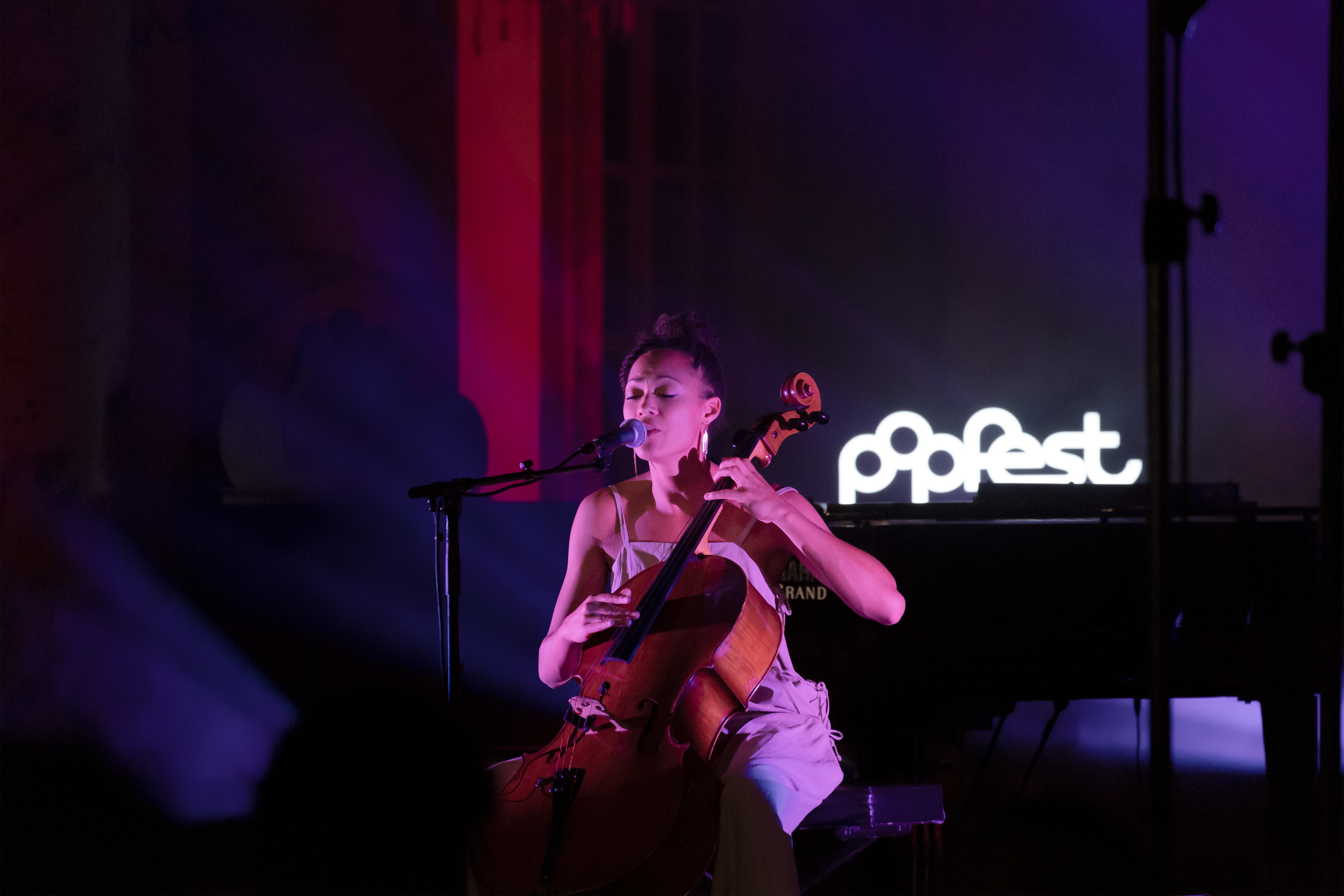 Marie Spaemann, concert during Popfest 2020 at Karlskirche in Vienna, Austria.